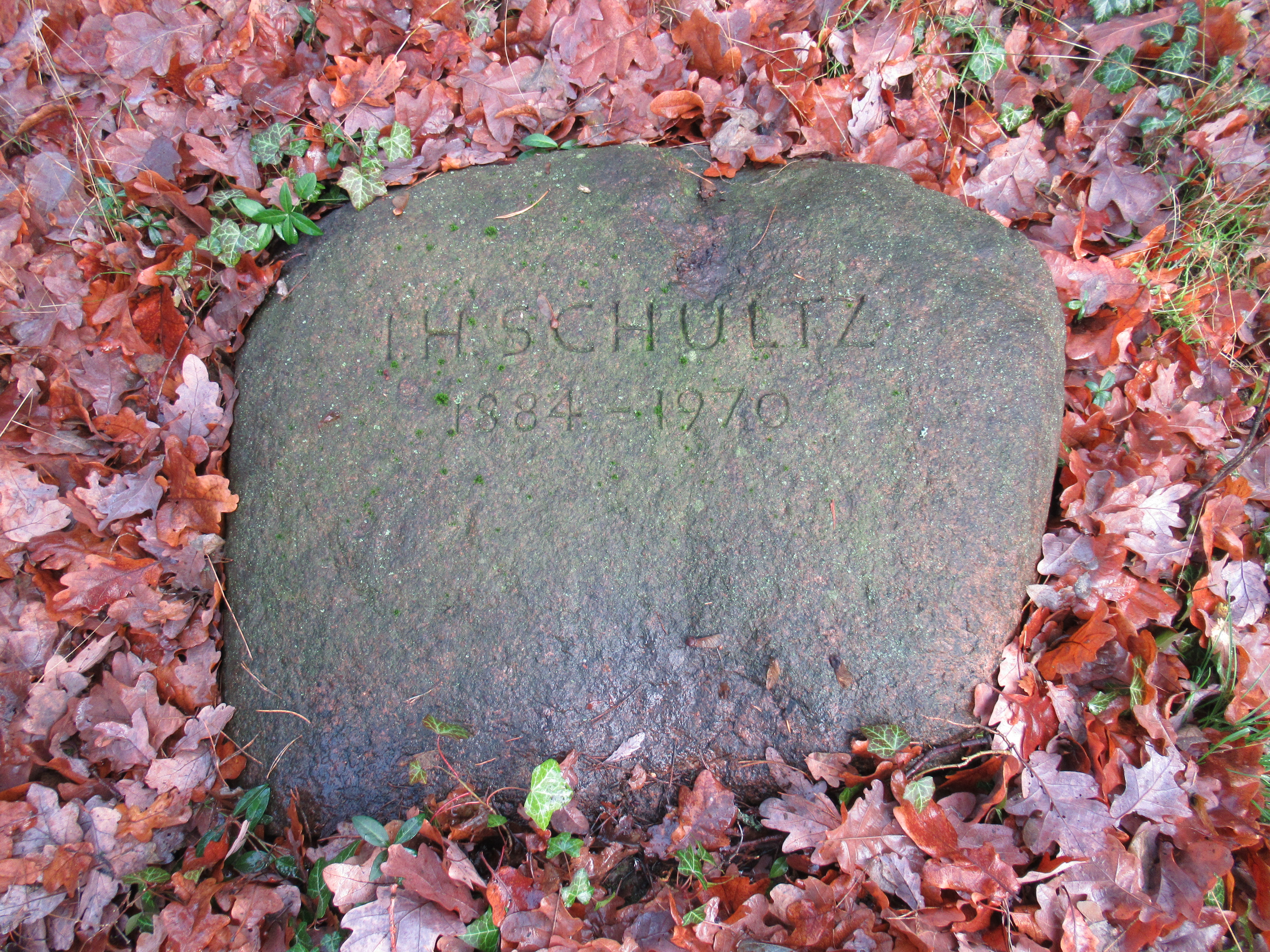 Grave of German psychotherapist Johannes Heinrich Schultz at Friedhof Heerstraße in Berlin-Westend